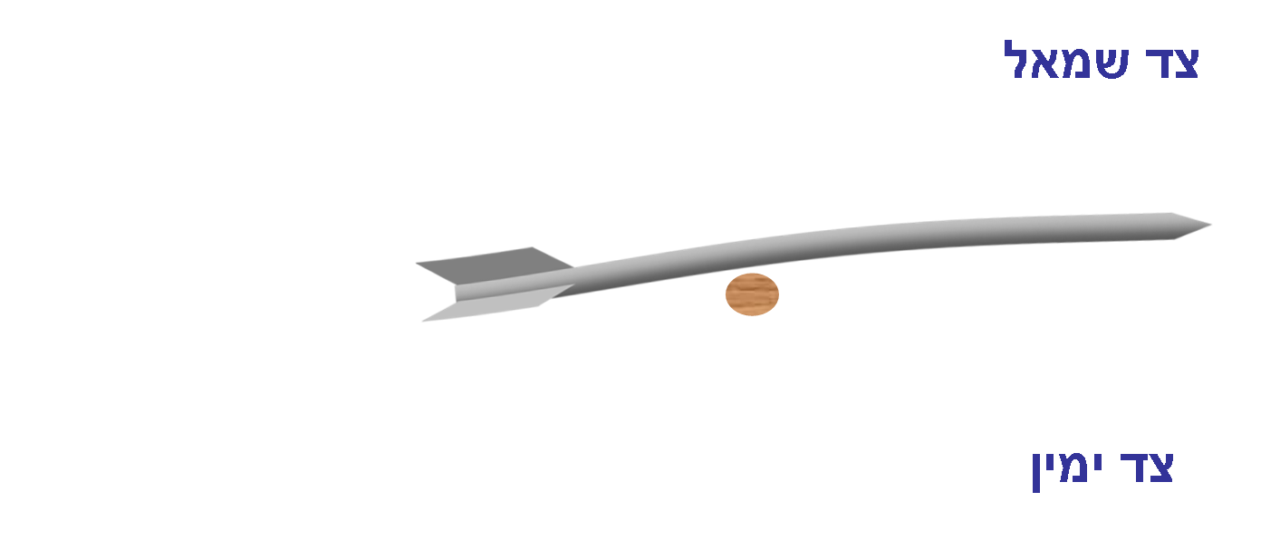 Archer's Paradox stage 3